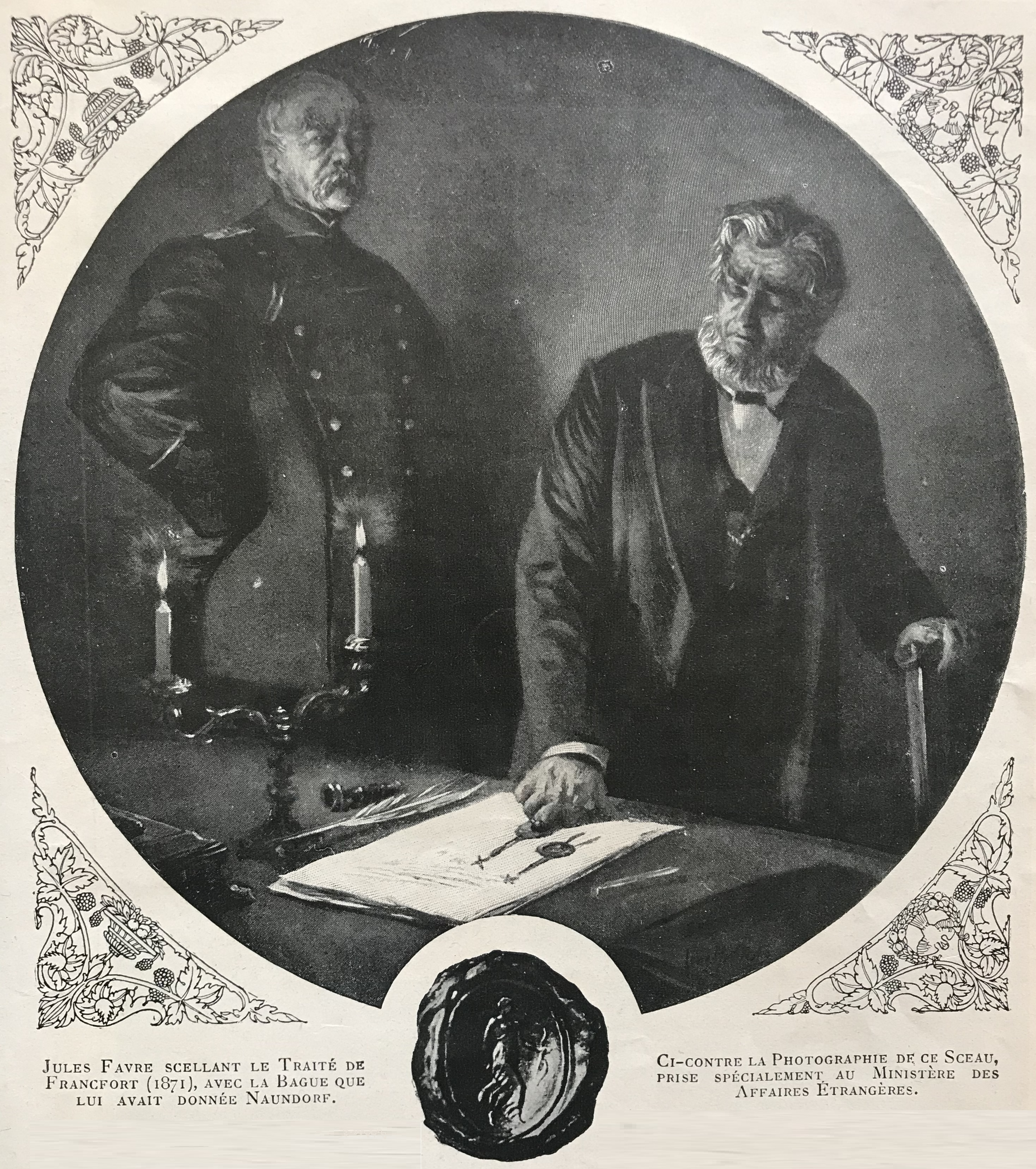 Jules Favre putting his seal on the Treaty of Frankfurt